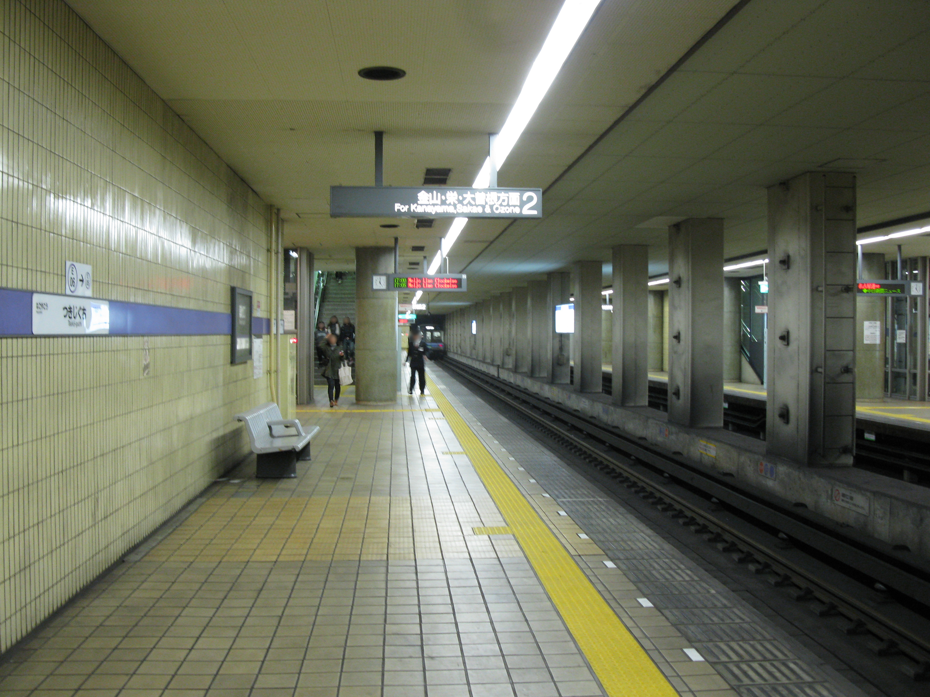 Tsukiji-guchi Station platform (Nagoya Municipal Subway Meikō Line)